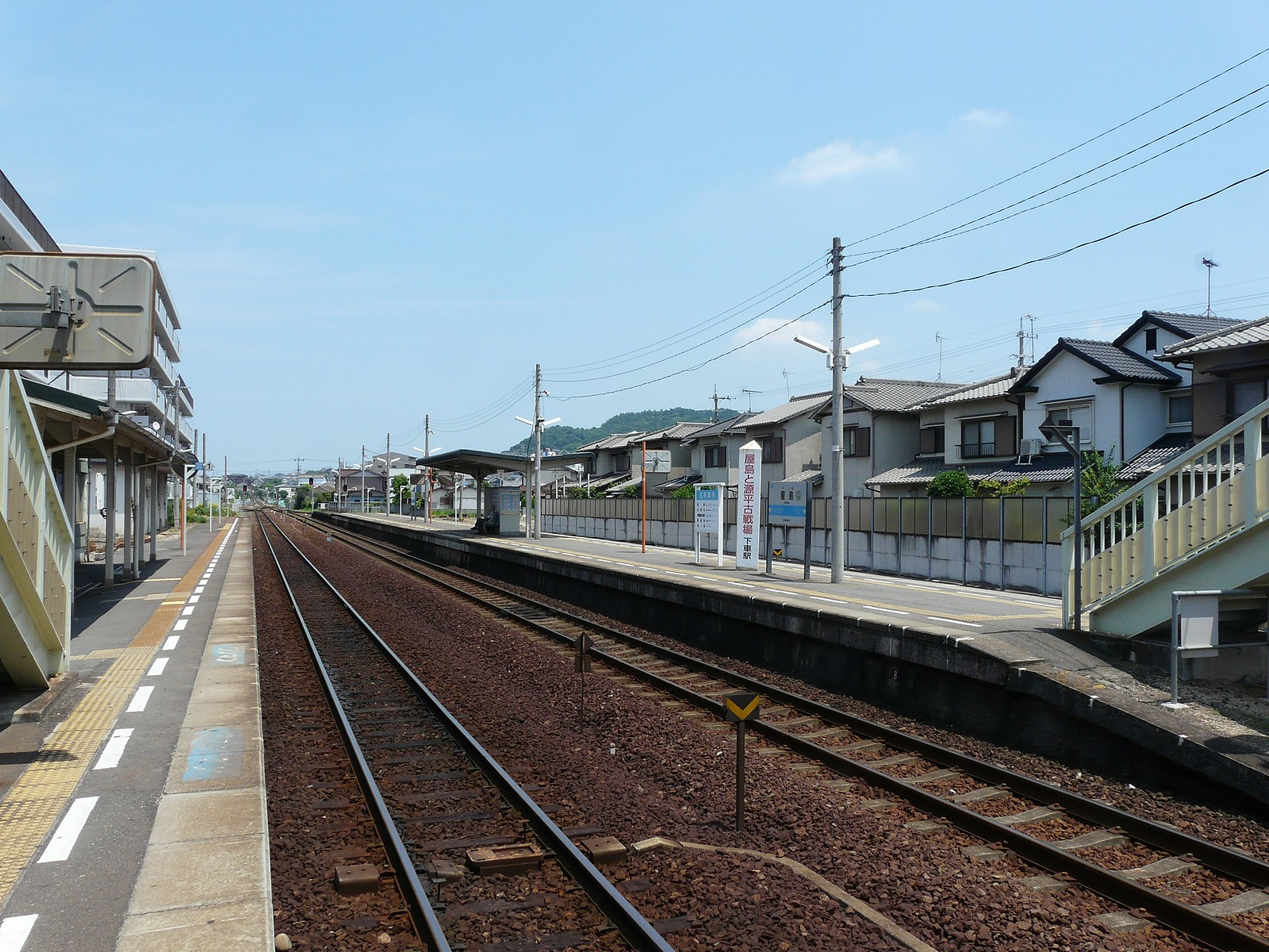 Yashima Station platform